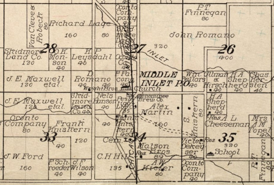 Map detail of Middle Inlet, Wisconsin. From Standard Atlas of Marinette County Wisconsin Including a Plat Book of the Villages, Cities and Townships of the County. 1912. Chicago: Geo. A. Ogle & Co.